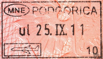 Passport stamp from Podgorica Airport, Montenegro.